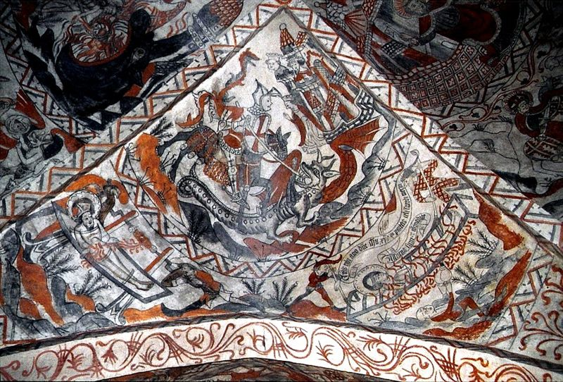 Frescoes by The Isefjord Master from apr. 1460-1480 in Tuse Kirke (church)